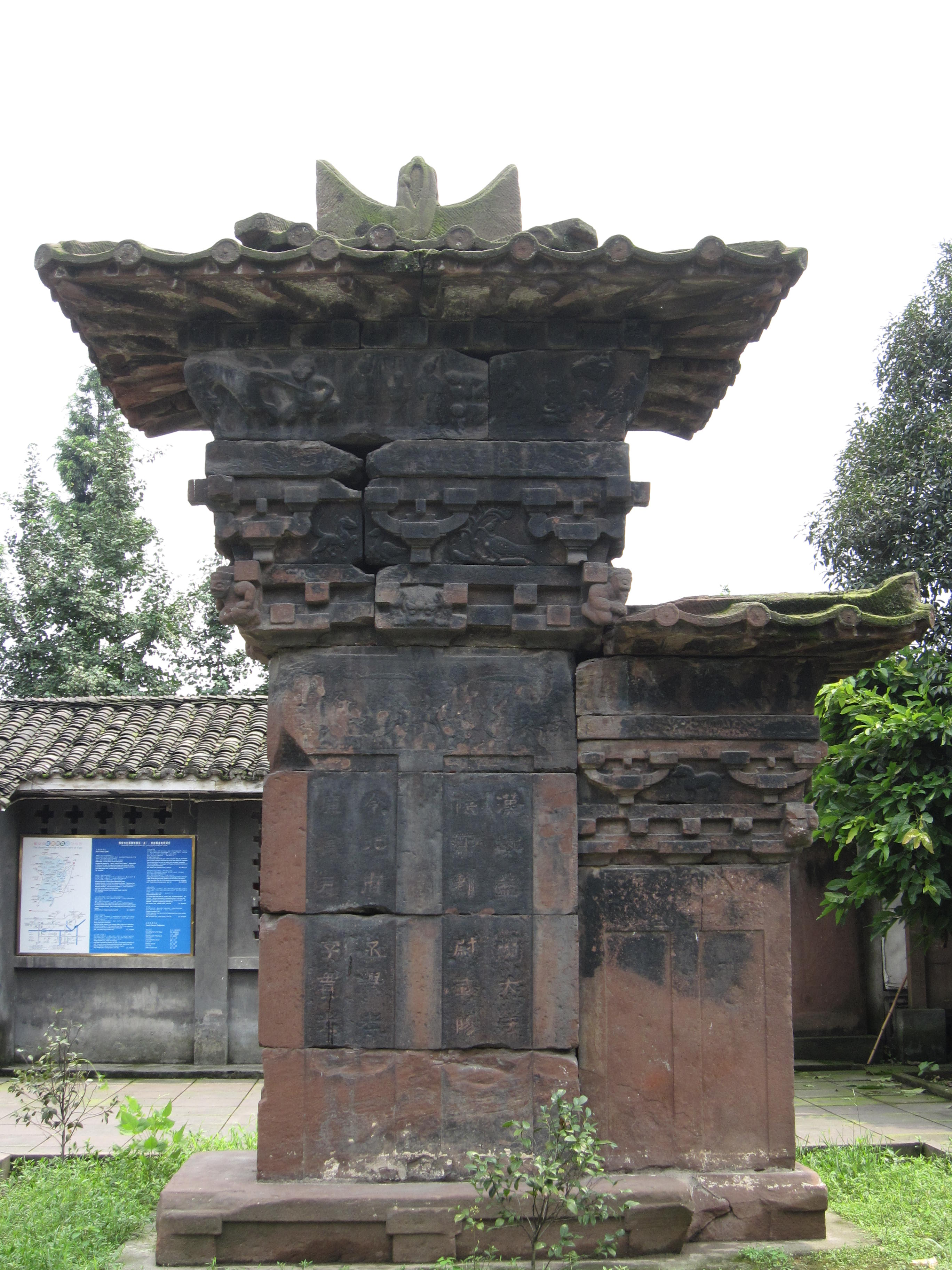 The Gaoyi Que, a stone-carved pillar-gate (que, 闕), 6 m (20 ft) in height, located at the tomb of Gao Yi in Ya'an, Sichuan, China, from the Eastern Han Dynasty (25-220 AD).